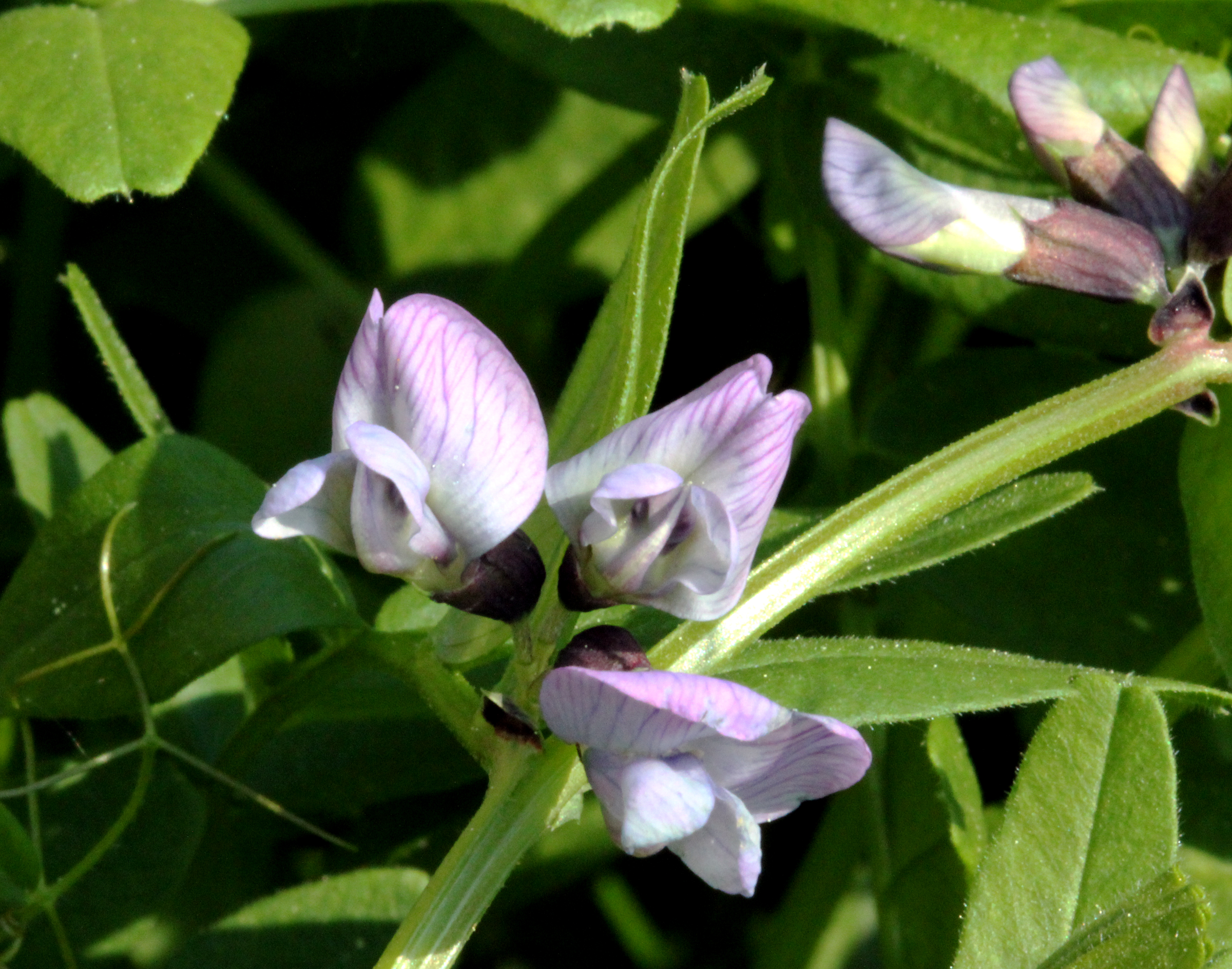 Flower of Vicia sepium, east Bohemia, Czech Republic